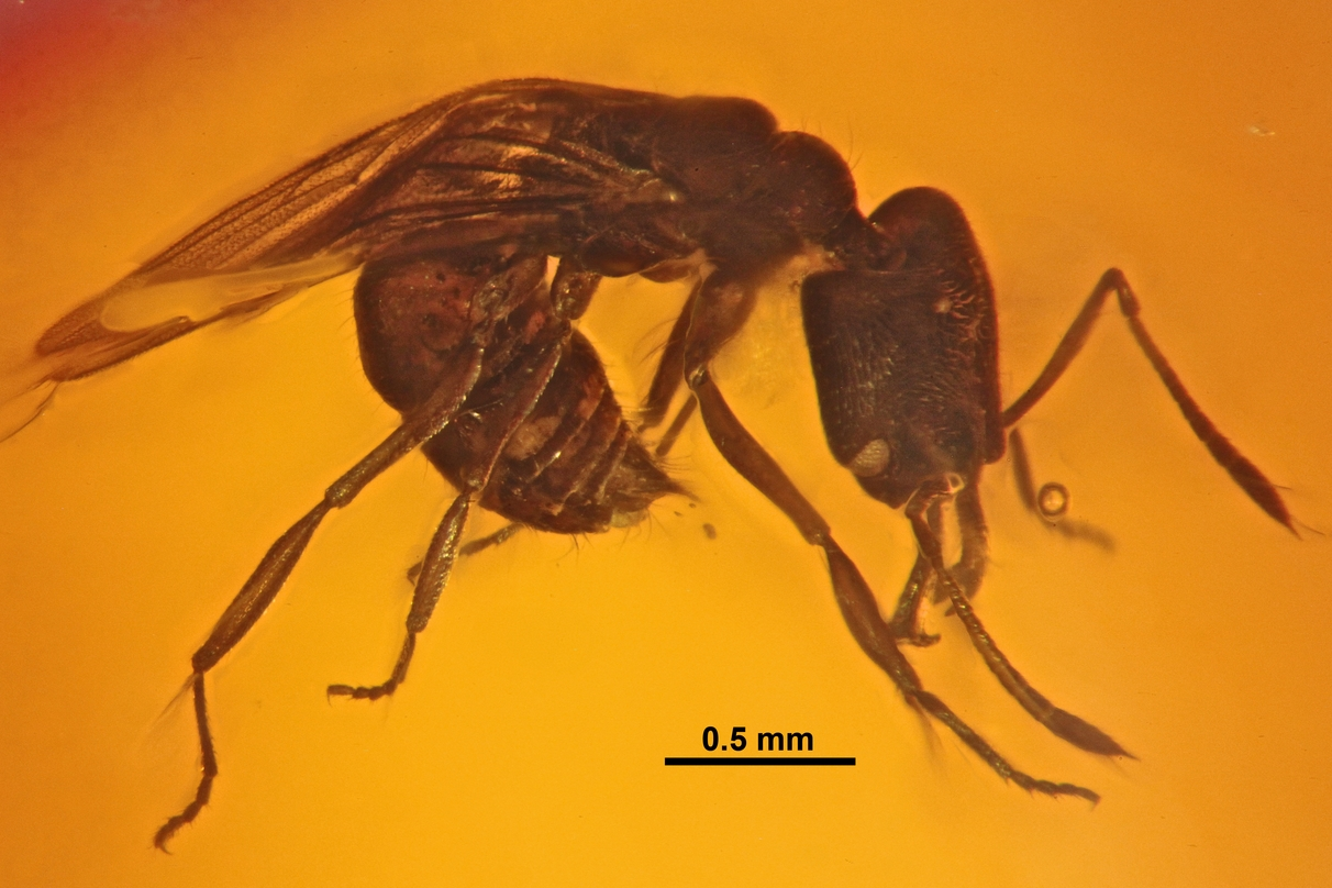 Profile view of the Anochetus corayi holotype. Specimen "SMNSDO834-K1"